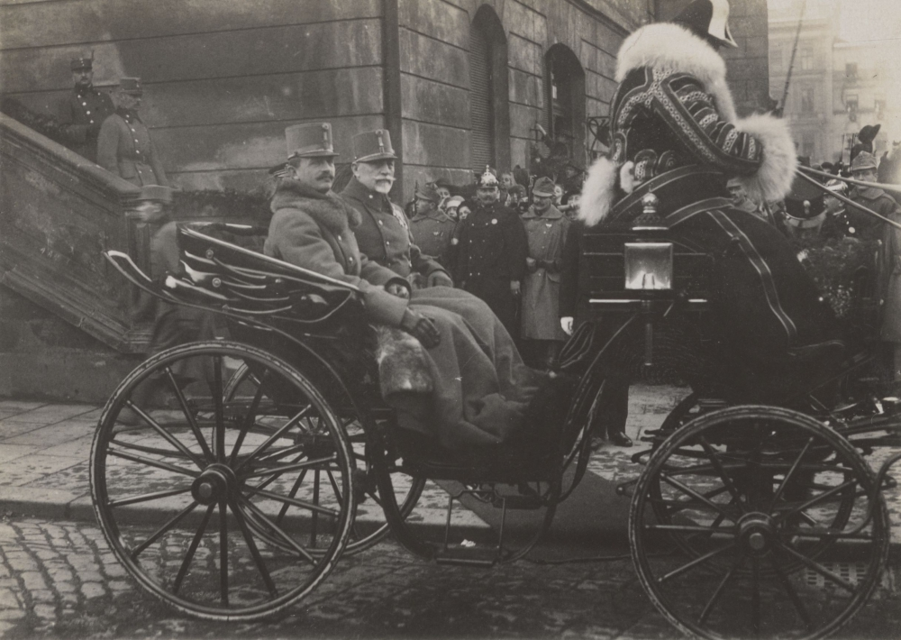 Lieutenant general Adam von Brandner, military commander of Cracow, in the carriage with Austrian emperor Karl I.